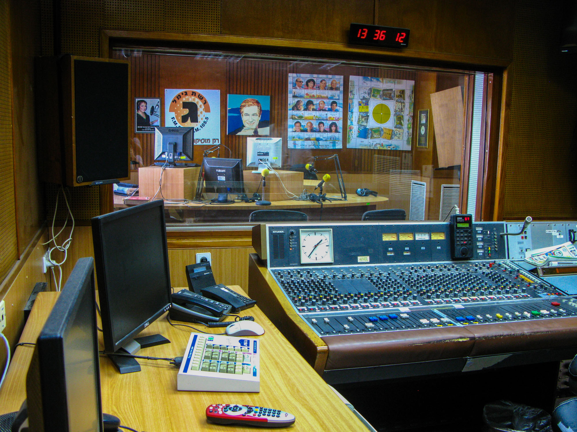 Israel broadcasting authority in Tel Aviv 2016 Broadcast studio